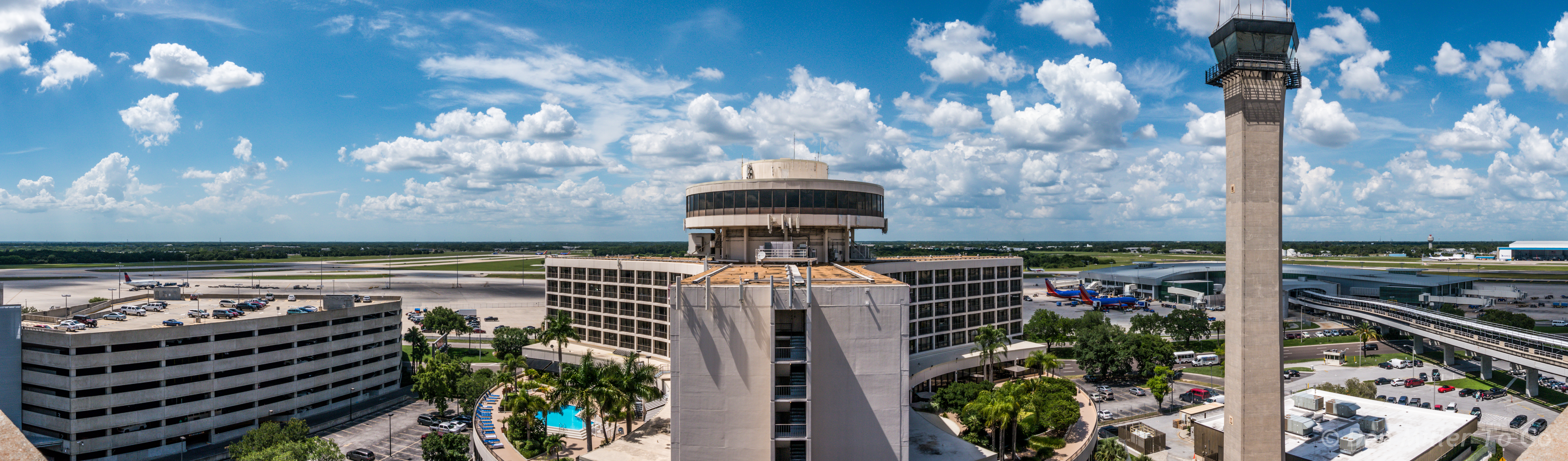 Tampa International Airport panorama.